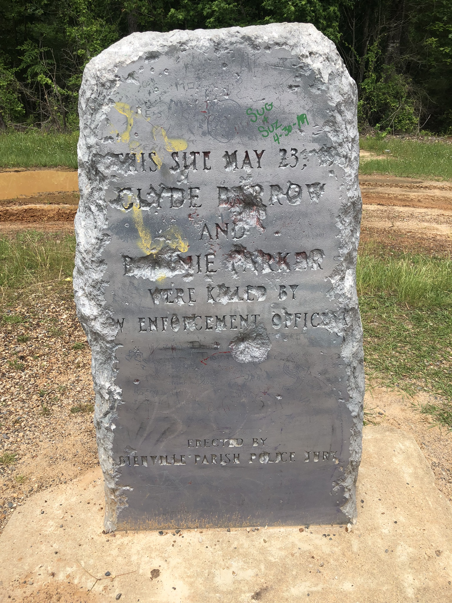 This is the original monument on the site of the ambush of Bonnie & Clyde in Gibsland, La.